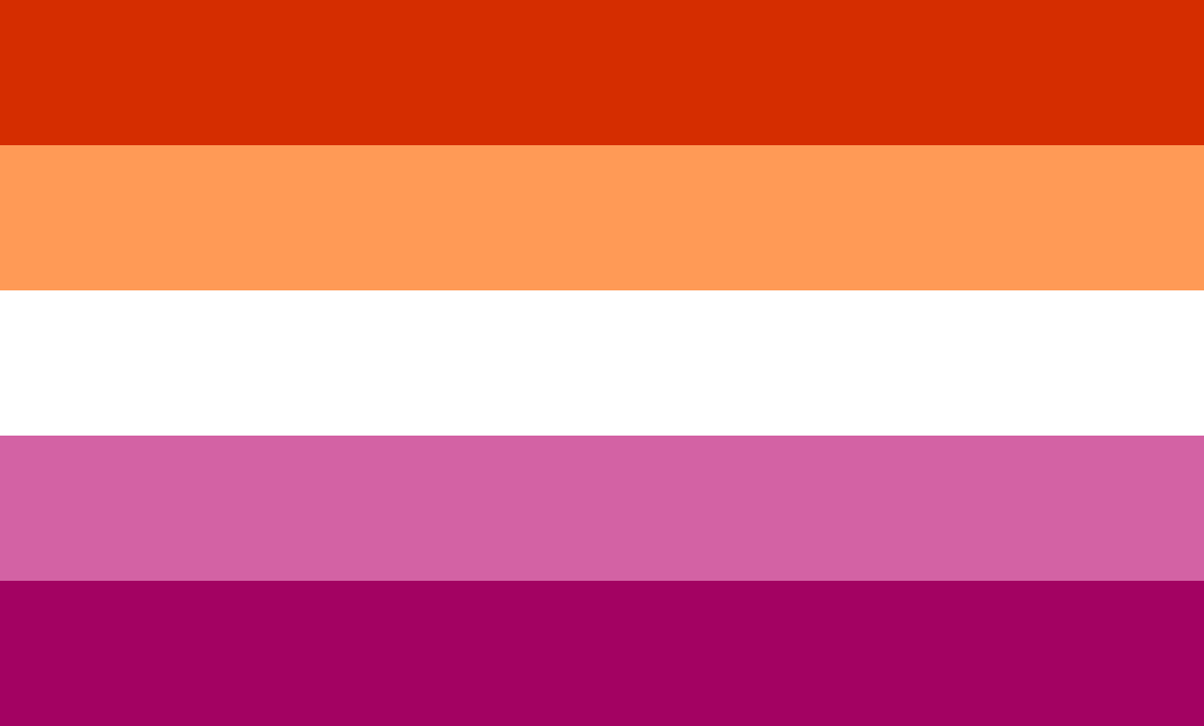 The orange-pink lesbian pride flag, inclusive to gender non-conforming, transgender, and butch lesbians. This flag received the most votes in a poll on the Tumblr community.